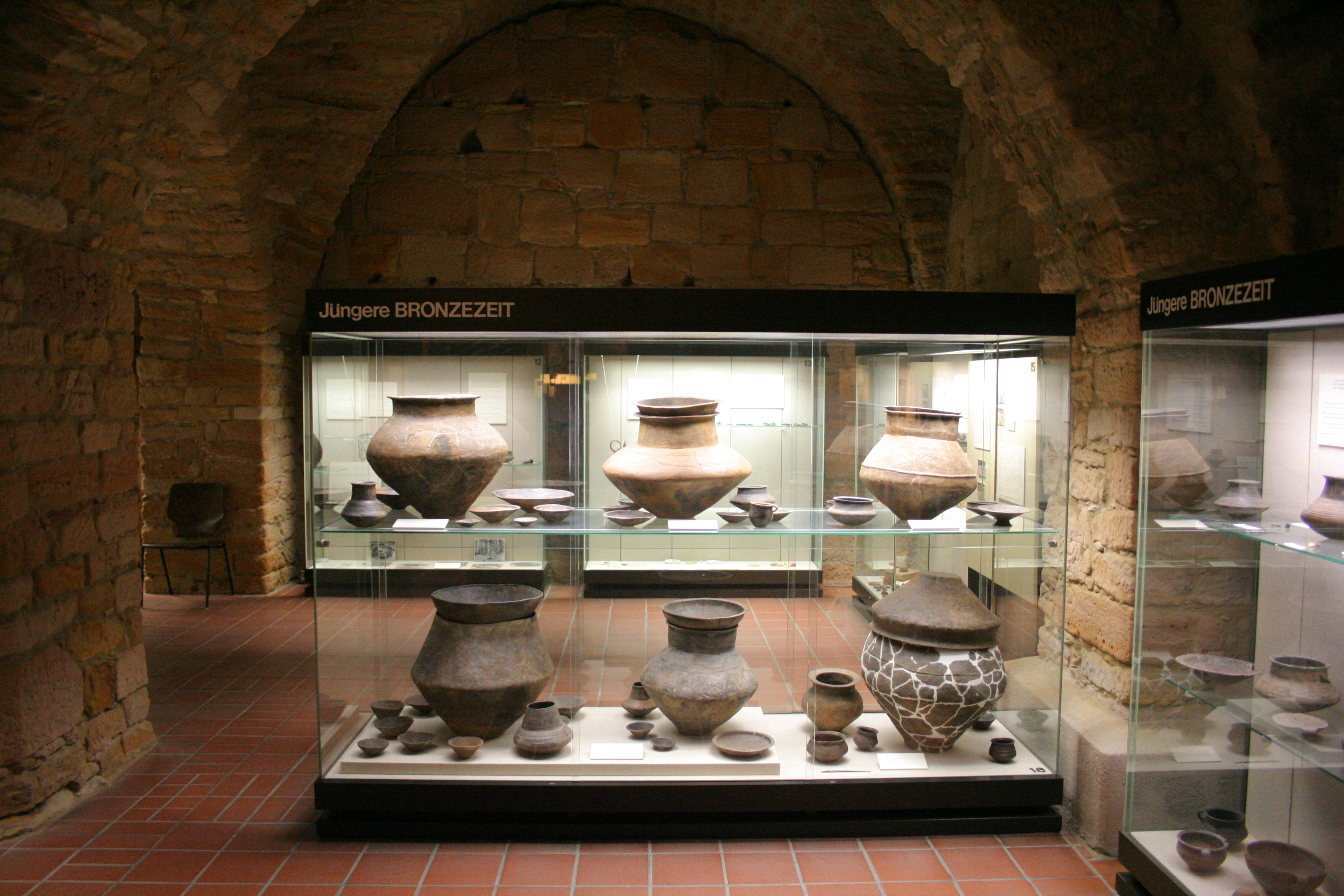 Grave urns of the Urnfield culture, place of discovery: Lahn Hills, Marburg, Hesse, Germany, exhibited in the Universitätsmuseum für Kulturgeschichte, Marburg